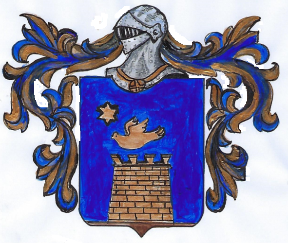 Coat of Arms found in the Library of the Order of Malta London.